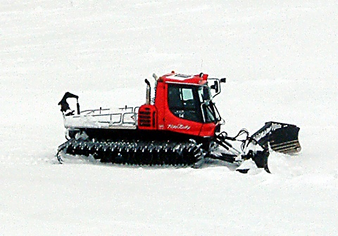 Pisten Bully snowcat used for moving snow and grooming pistes in ski resorts.